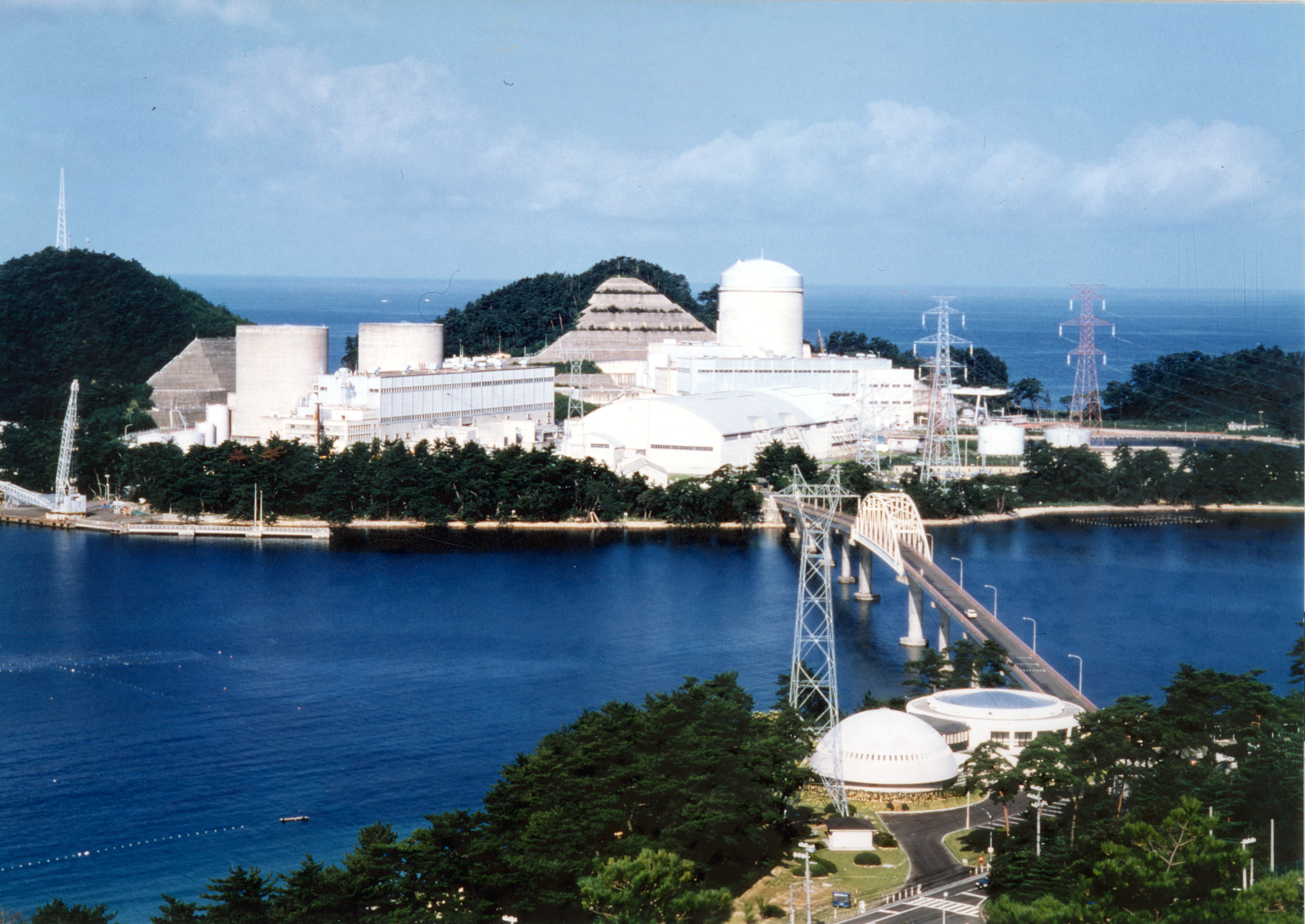 Mihama nuclear power plant. (Mihama, Japan) Photo Credit: Kansai Electric Power Co.